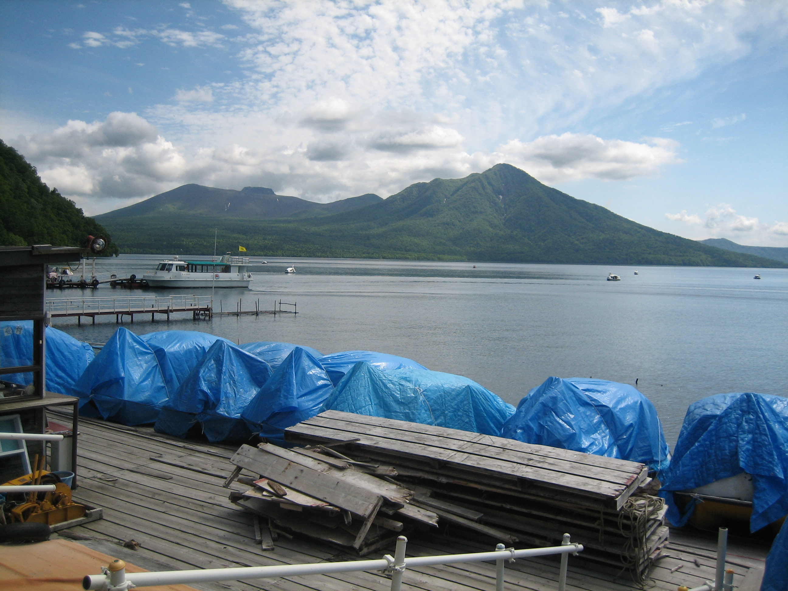 Mount Tarumae (left) and Mount Fuppushi (right) seen from NNE. Lake Shikotsu in the foreground. Attribution: Kraig Donald